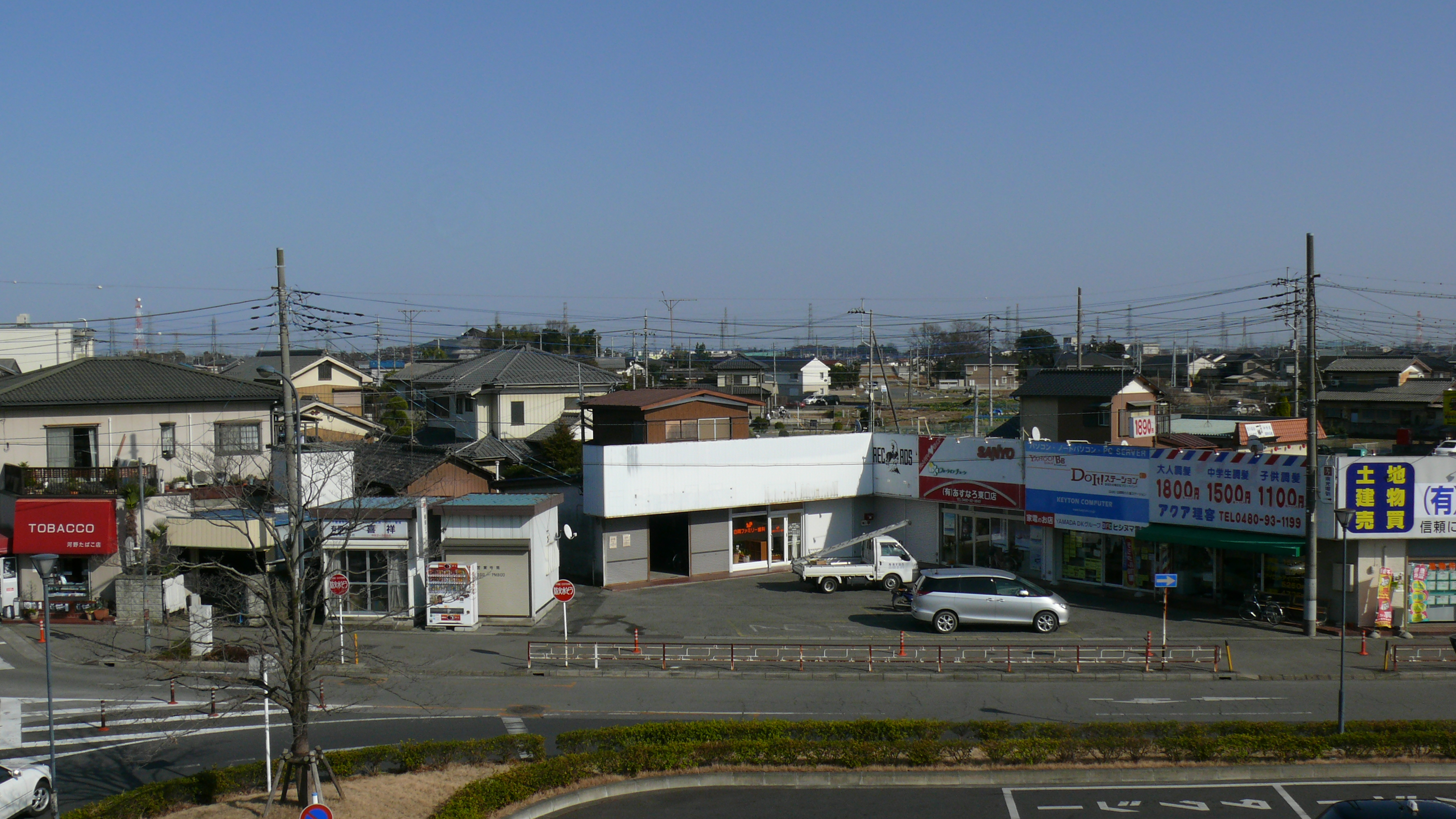 East Japan Railway Shin-Shiraoka Station East side district.